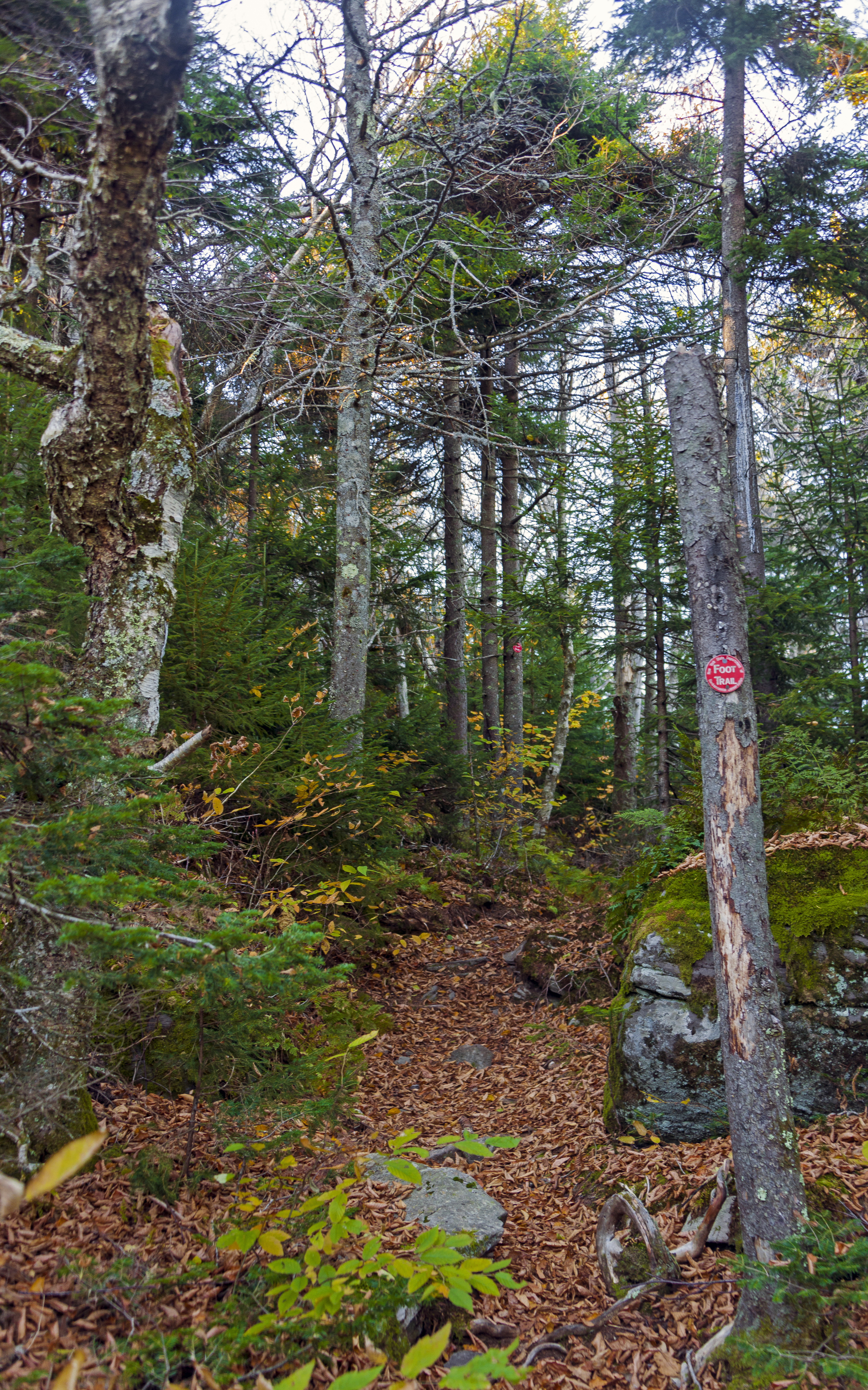 A section of the Devil's Path high up West Kill Mountain, one of New York's Catskill High Peaks, in montane boreal forest, with balsam fir predominant in the surrounding woods.